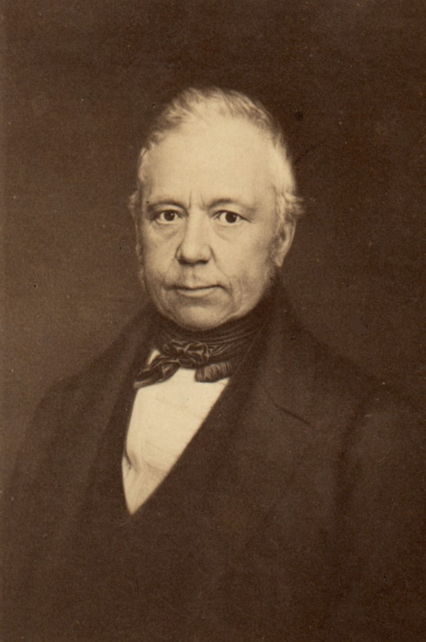 Portrait Christian Jakob Johns between 1840 and 1850